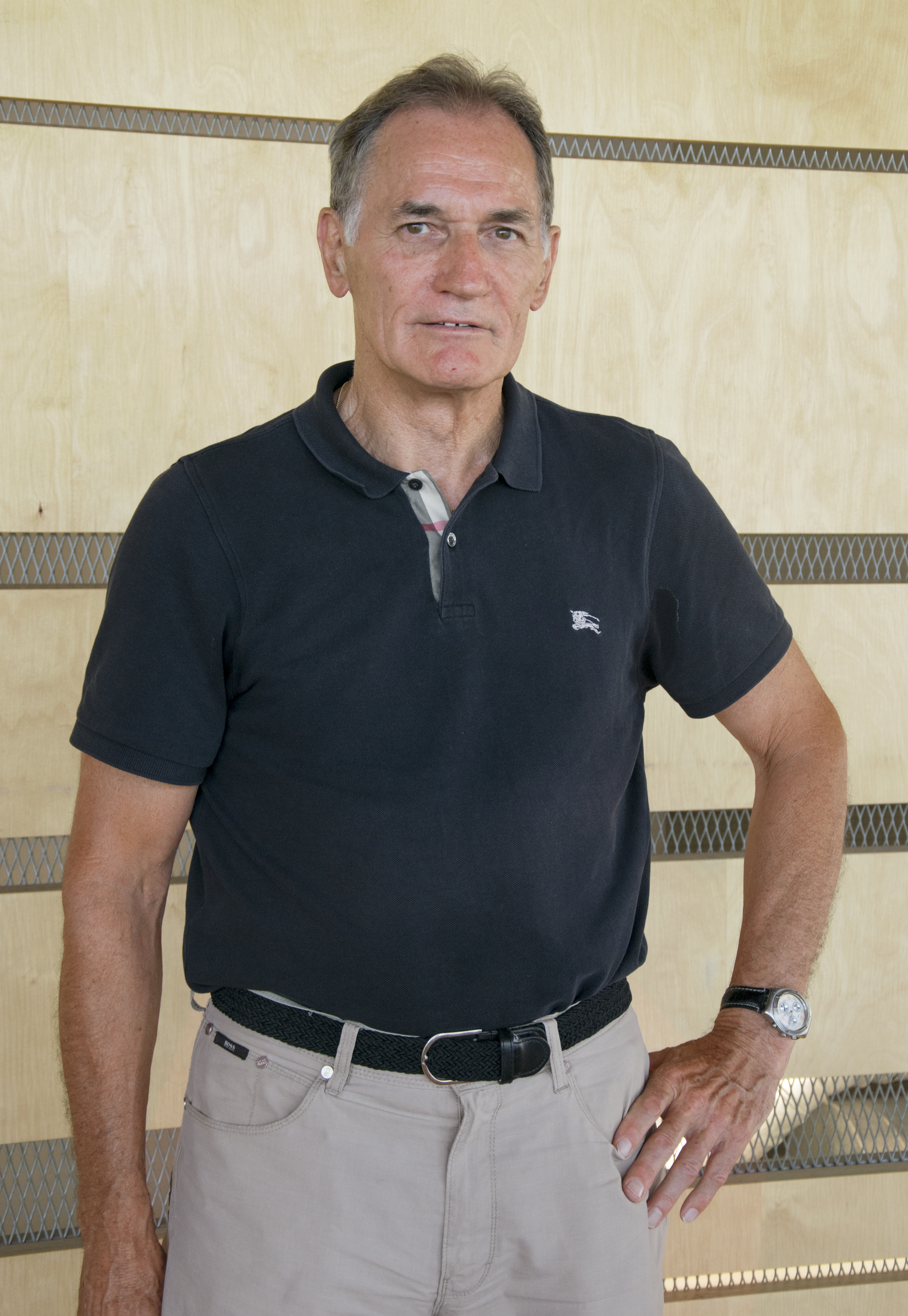 Michel Stauffer, director of the Eracom (school of art and communication) from 1982 to 2012. Photographed in 2017